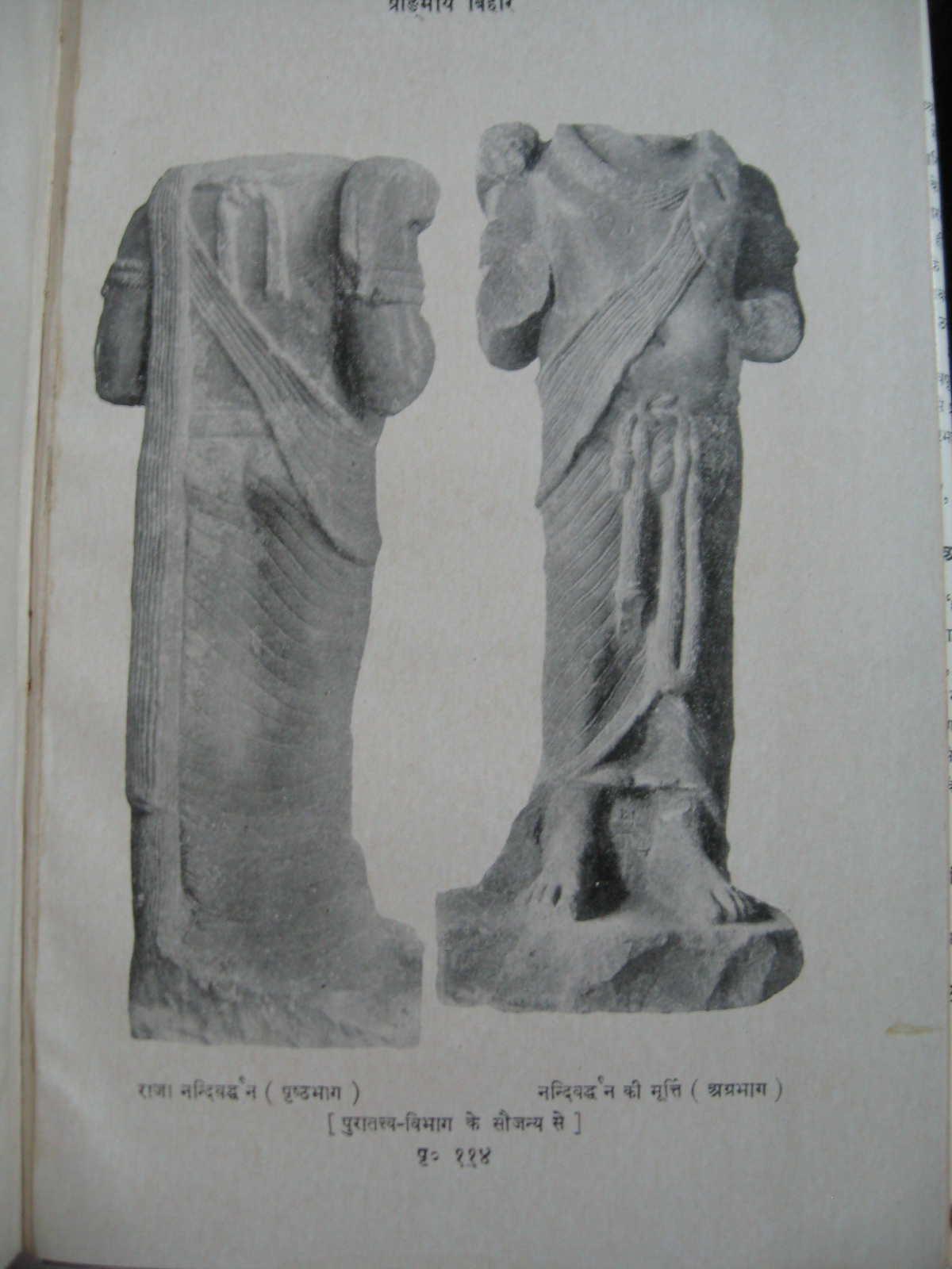 from book "Pradamaurya Bihar" Deva Sahaya Trived, 1954, Bihar Rashtra Bhasa Parishad, Patna Brahmi inscription on the image stating it as Ajatshatru - given in book